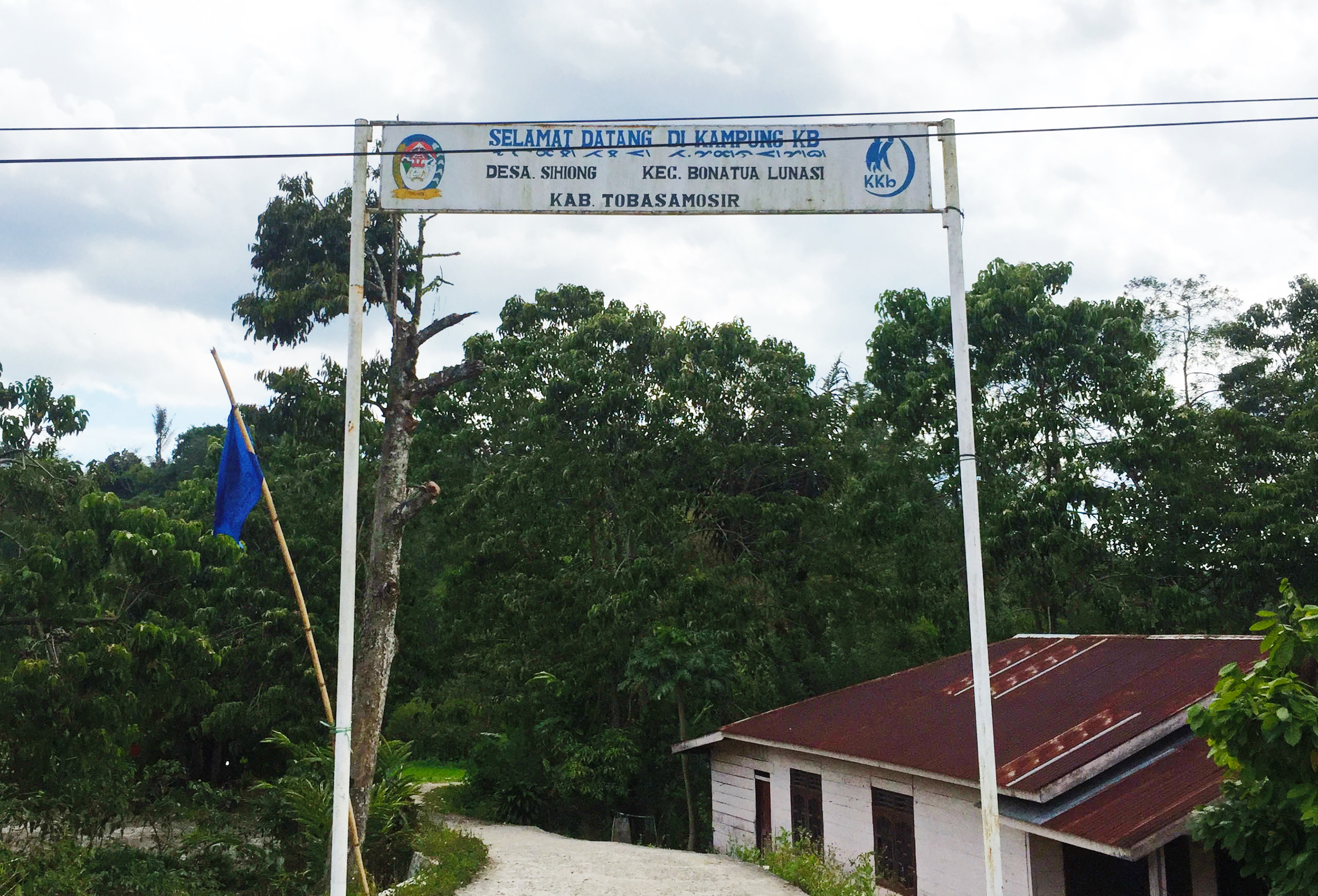 Gapura Selamat Datang di Sihiong, Bonatua Lunasi, Toba Samosir